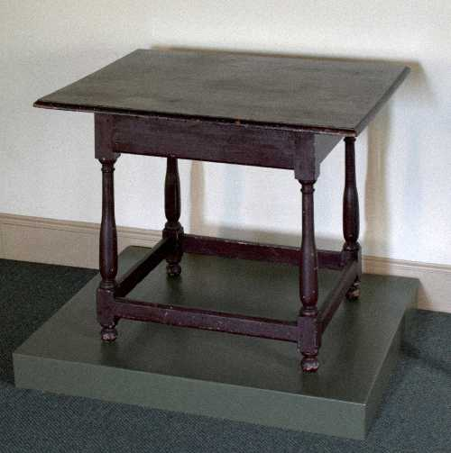 Photo taken by Robert Smith, May 2007, in the Mennonite Meetinghouse in Germantown. Referred to in article on The 1688 Germantown Quaker Petition Against Slavery.